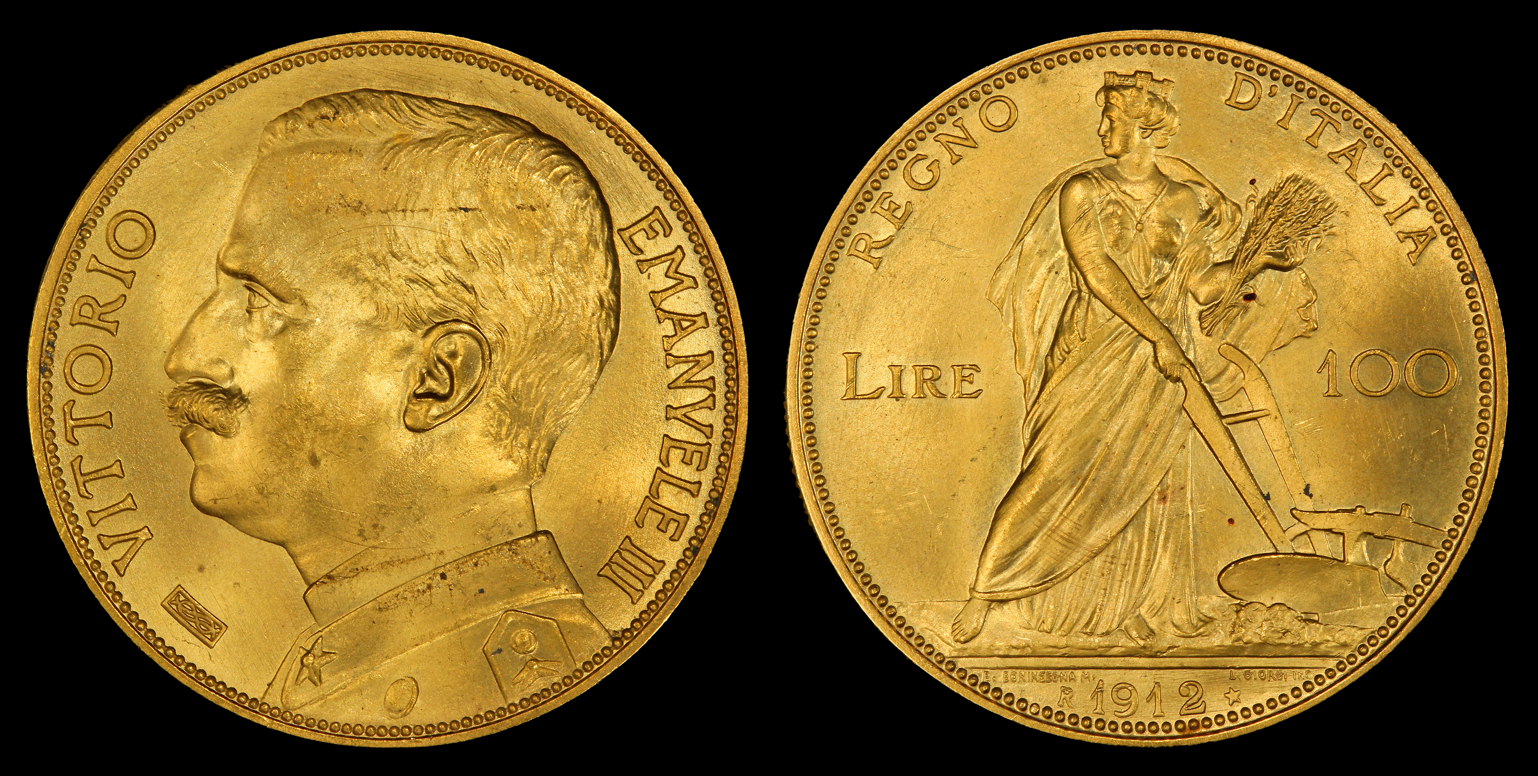 Italy, 100 Lira (1912). Depicting Victor Emmanuel III.